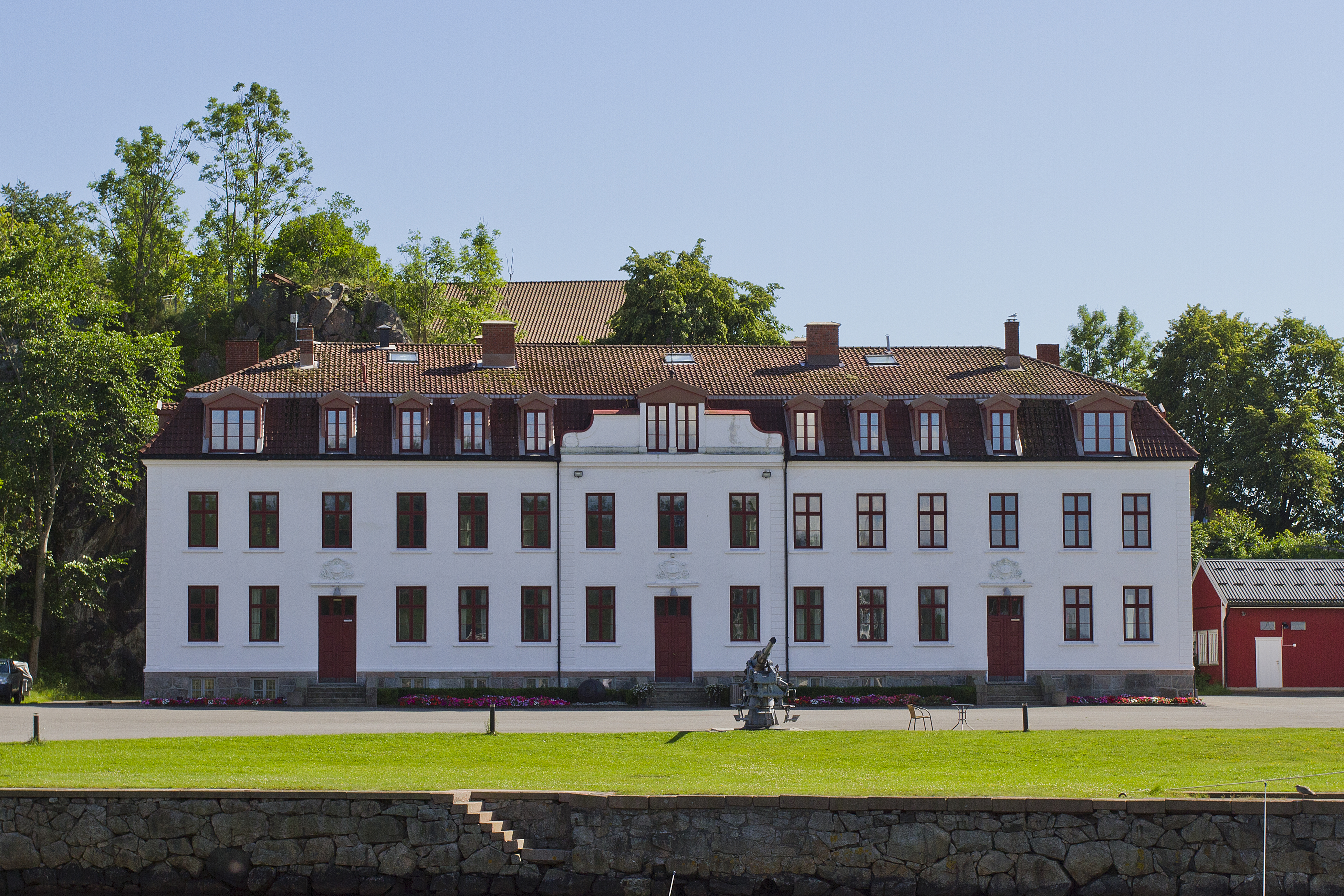 Part of Oscarsborg Fortress